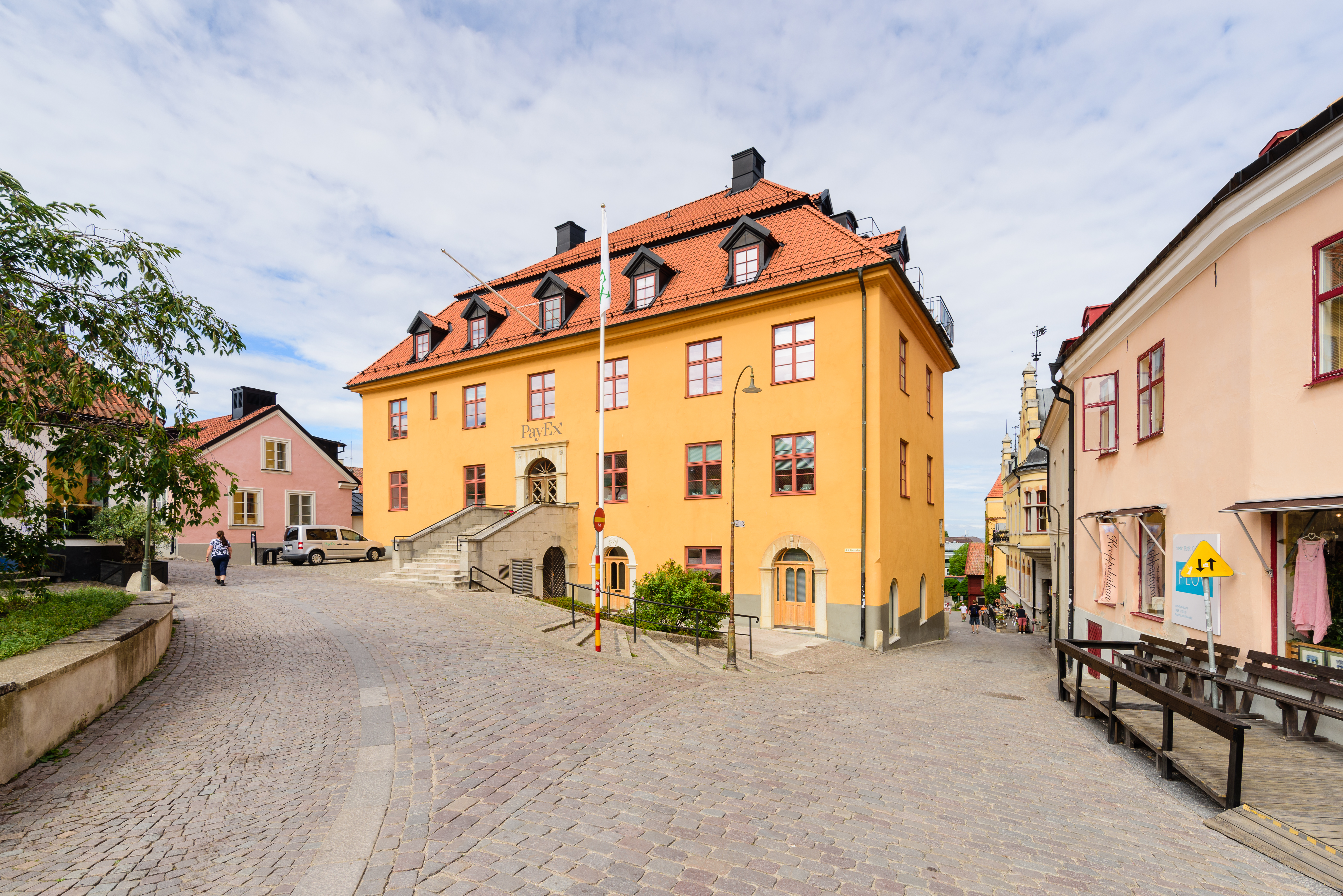 Sankt Hansplan is a square in Visby, Sweden.